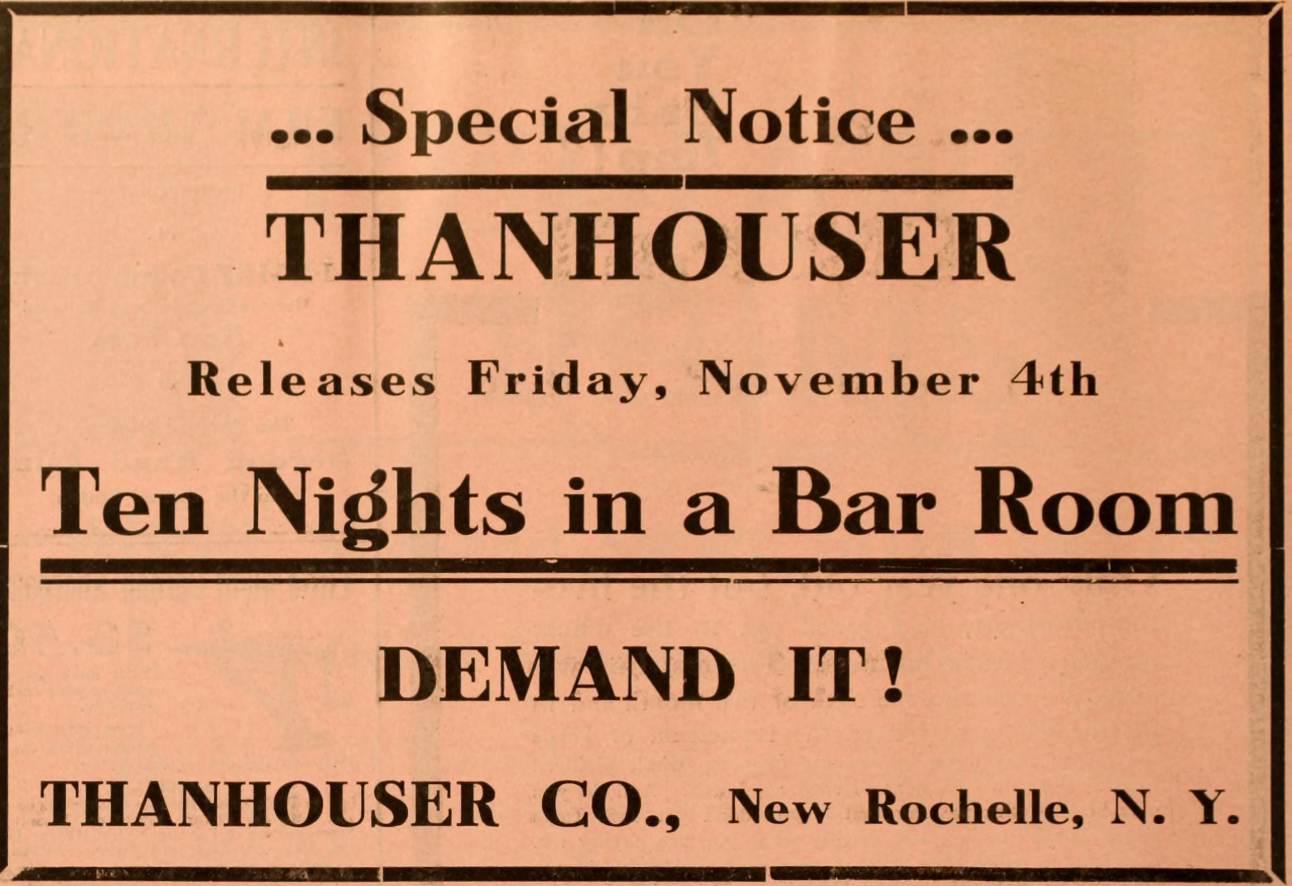 The advertisement for Ten Nights in a Bar Room by the Thanhouser Company. Released in 1910. This advertisement is different and uniquely plain because of a scheduling change in the planned movie order.